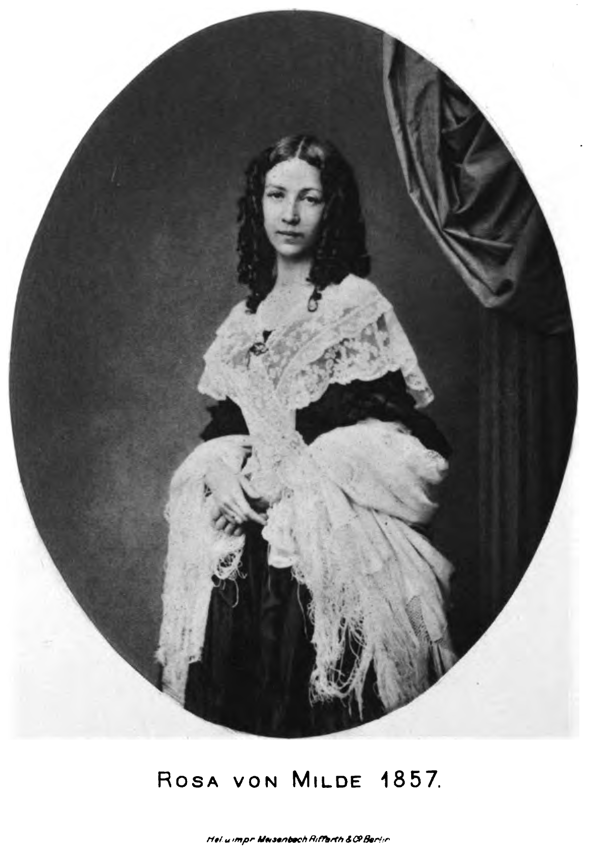 Picture of Rosa von Milde (1857)